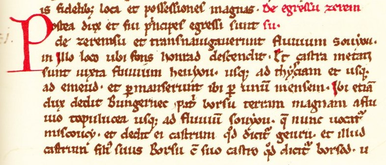 Excerpt from the Gesta Hungarorum (Chapter 31)